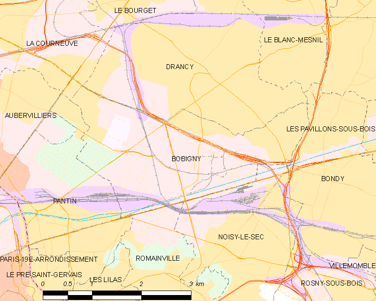 Map of French municipality Bobigny